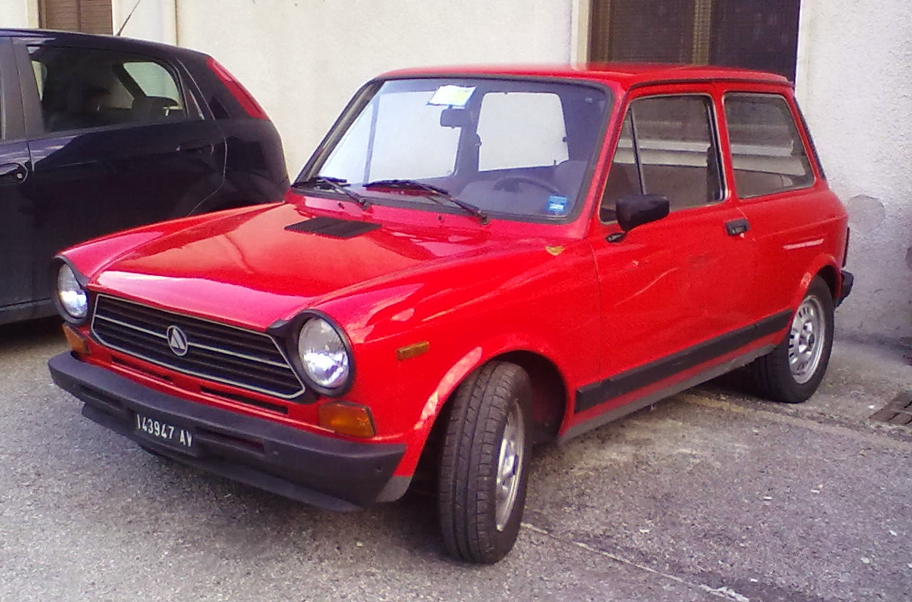 a red Autobianchi A112 in Avellino, Italy